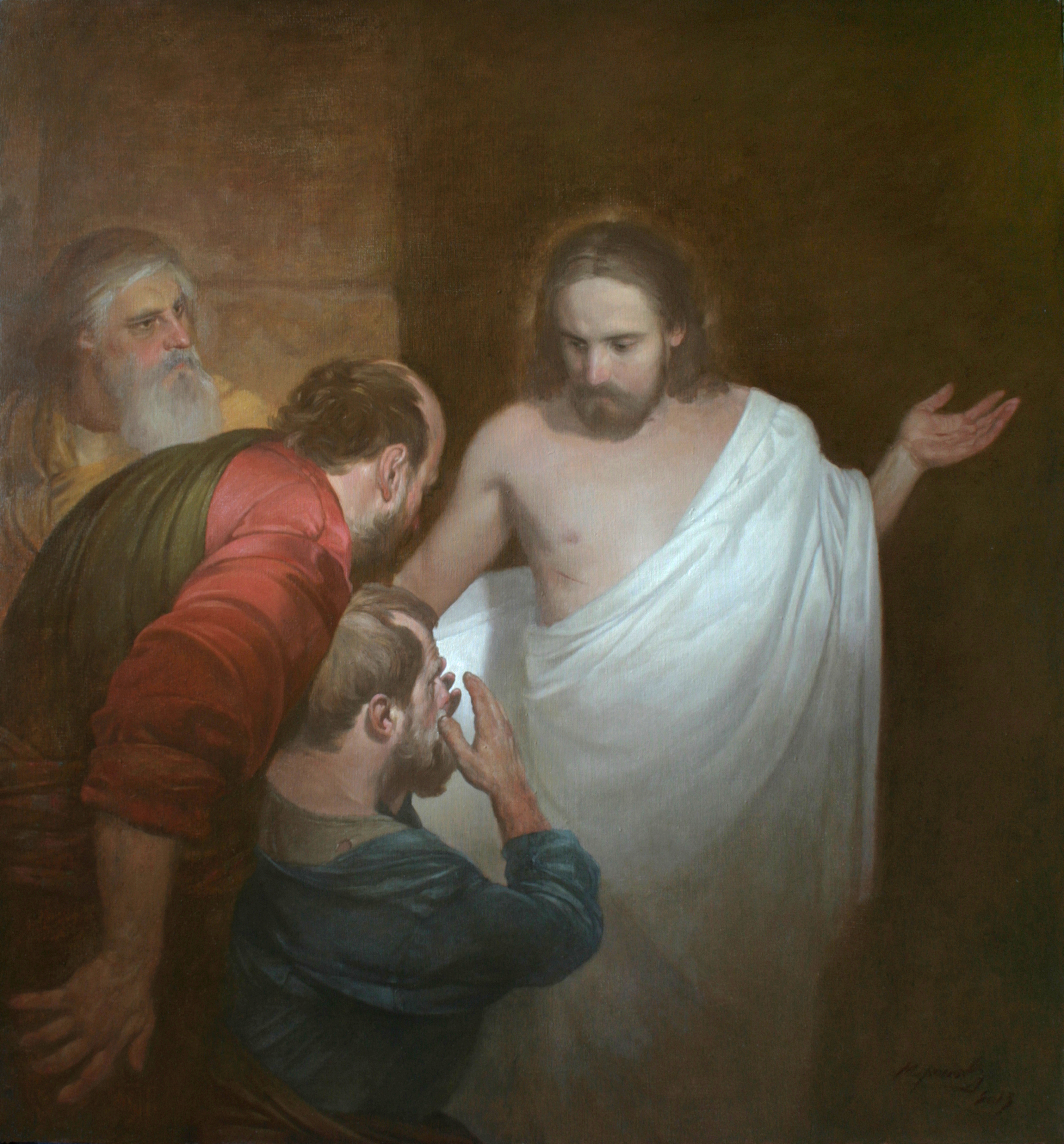 Christ appearing to the apostles. 2013. Oil on canvas. 100×93. Artist A.N. Mironov